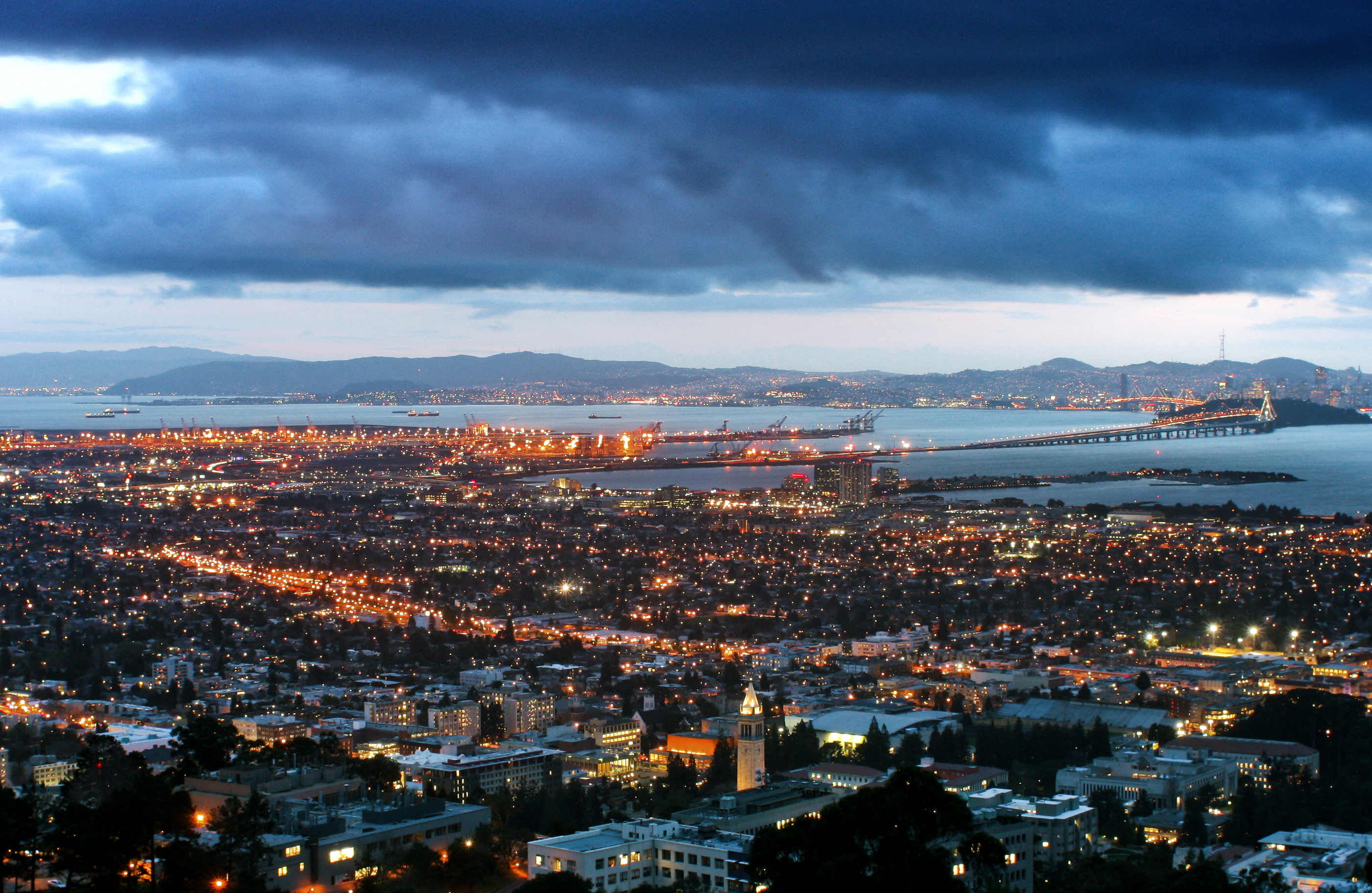 Ominous skies over Berkeley darken the final moments of Leap Day, 2012.